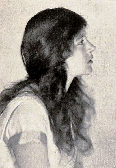 Actress June Walker on page 55 of the February 1920 Shadowland.